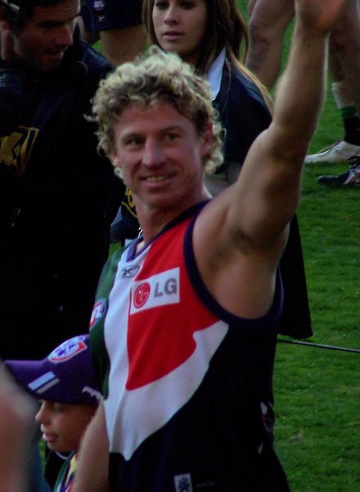 Shaun McManus's farewell game at the Round 18 2008 Western Derby Fremantle home game.